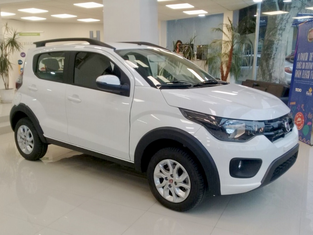 Fiat Mobi Way with 1.0 Fire 8V flex engine